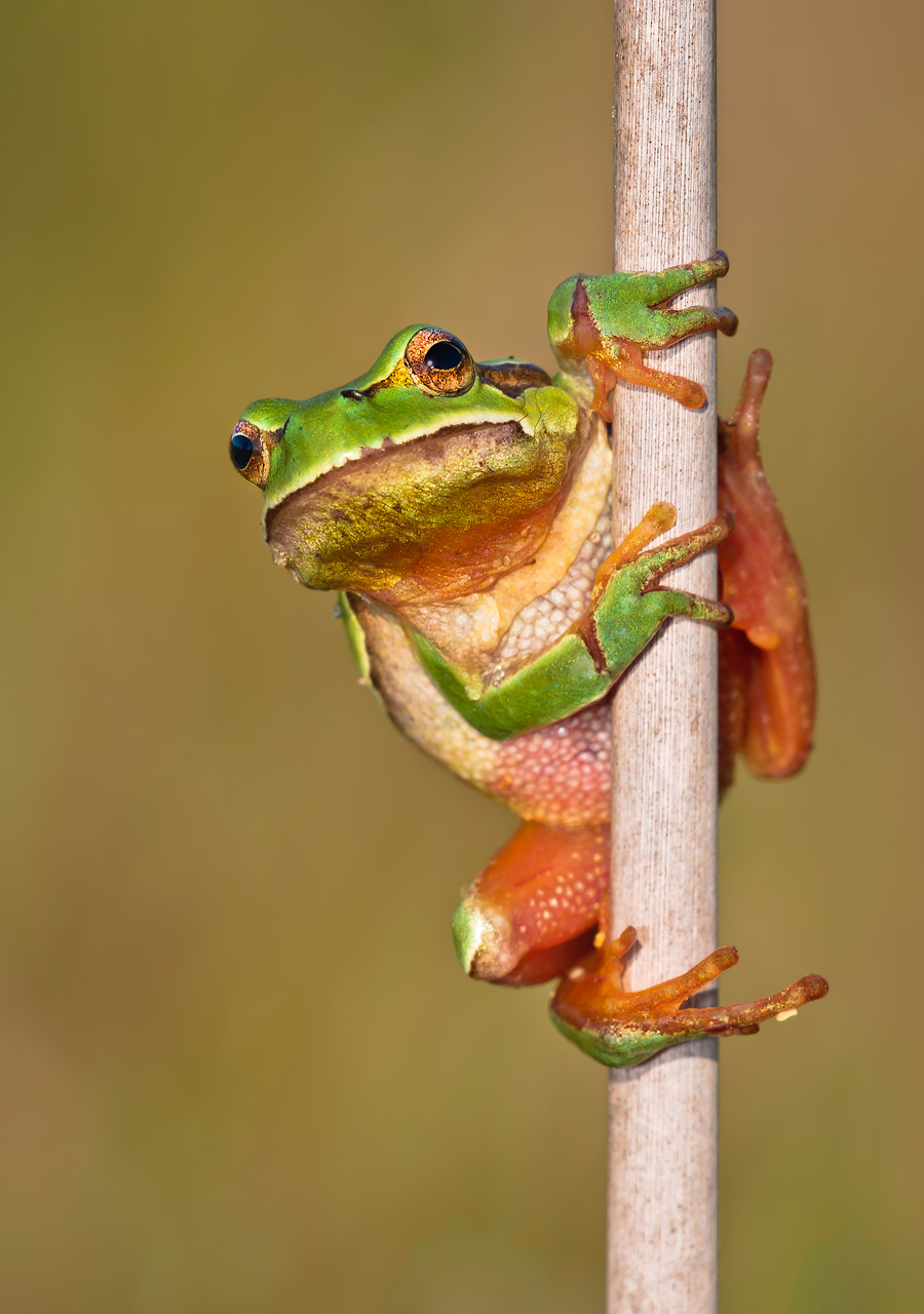 Hyla arborea (European treefrog) (rana de San Antonio) at Xuño Lagoon, Galicia, Spain in 2011